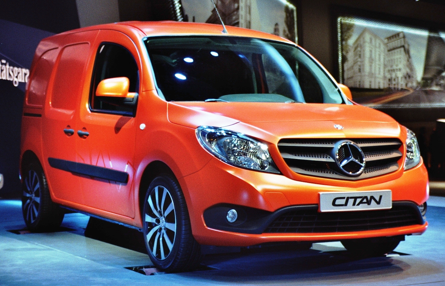 Mercedes-Benz Citan Van, photo taken at exhibition IAA 2012 in Hanover, Germany